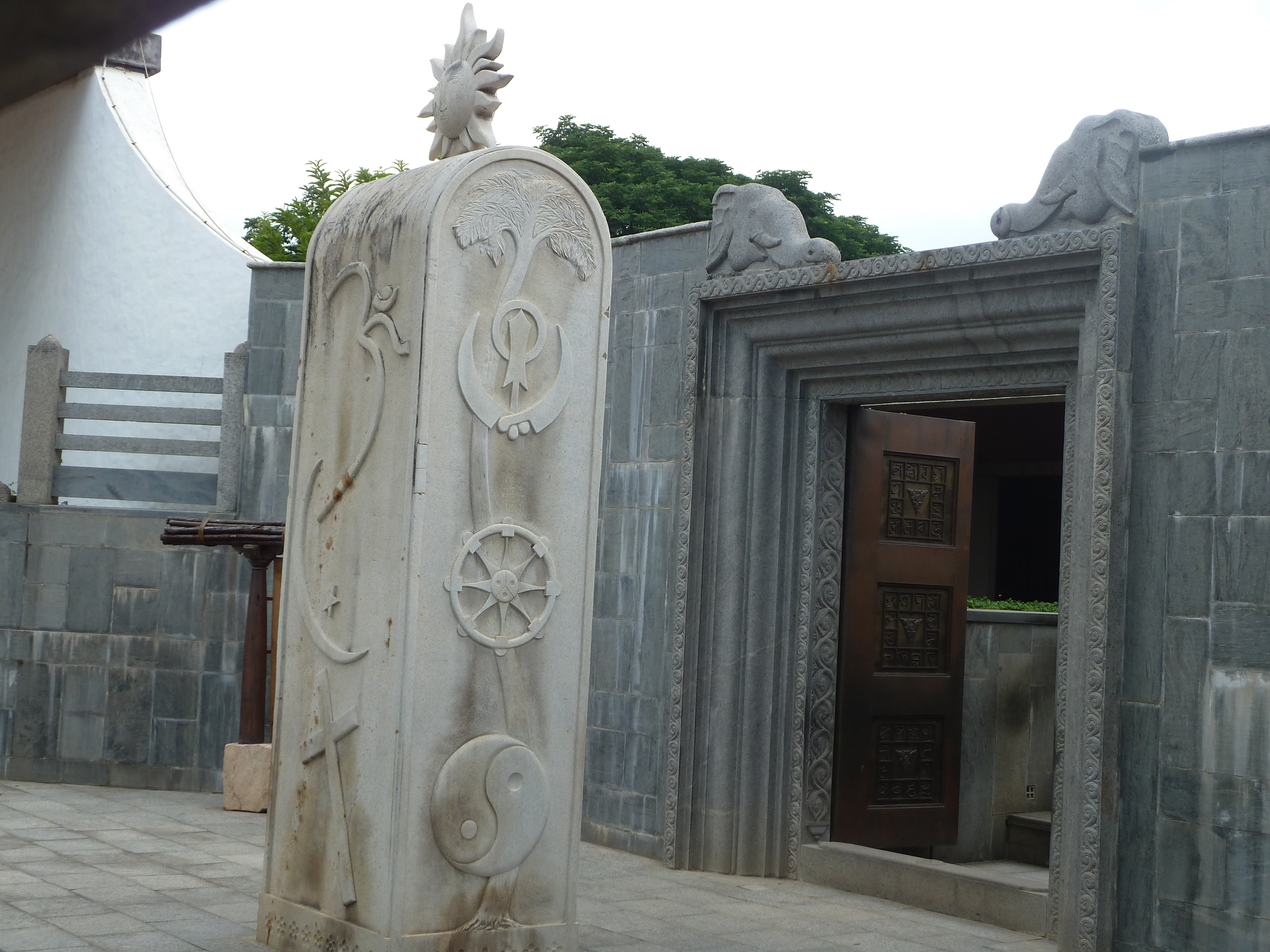 The Sarva Dharma Sthamba, located at the front entrance, functions as an icon of singularity, with the sculptural reliefs and symbols of Hinduism, Islam, Christianity, Jainism, Taoism, Zoroastrianism, Judaism, Buddhism, and Shinto inscribed as a universal welcome. This is found in Dhyanalinga